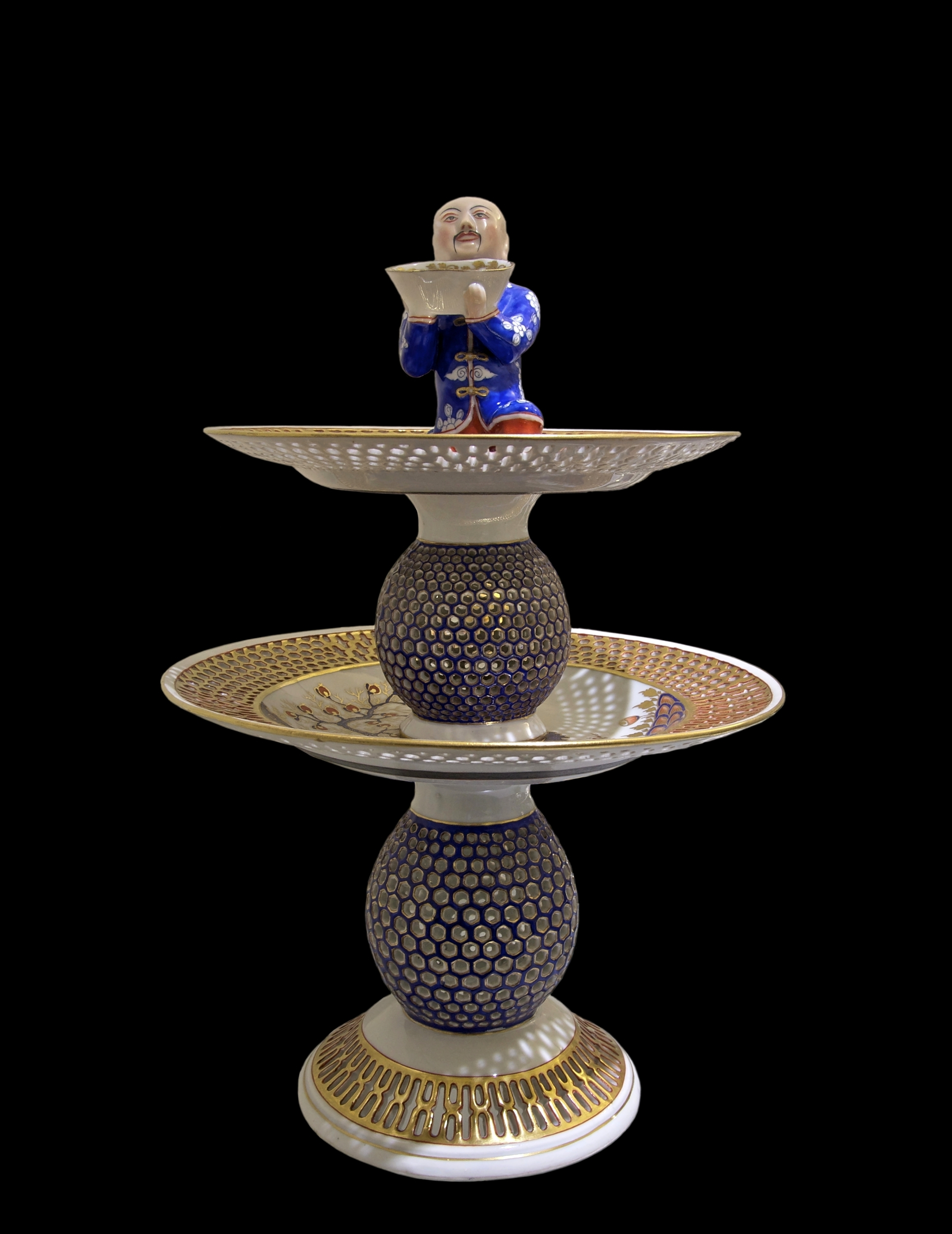 Element of the service that belonged to Emperor Maximilian of Mexico, Chinese style porcelain. Manufactory Herend, Vienna, 1865, "Silberkammer", catalogue N°168-169, Hofburg palace, Vienna, Austria.